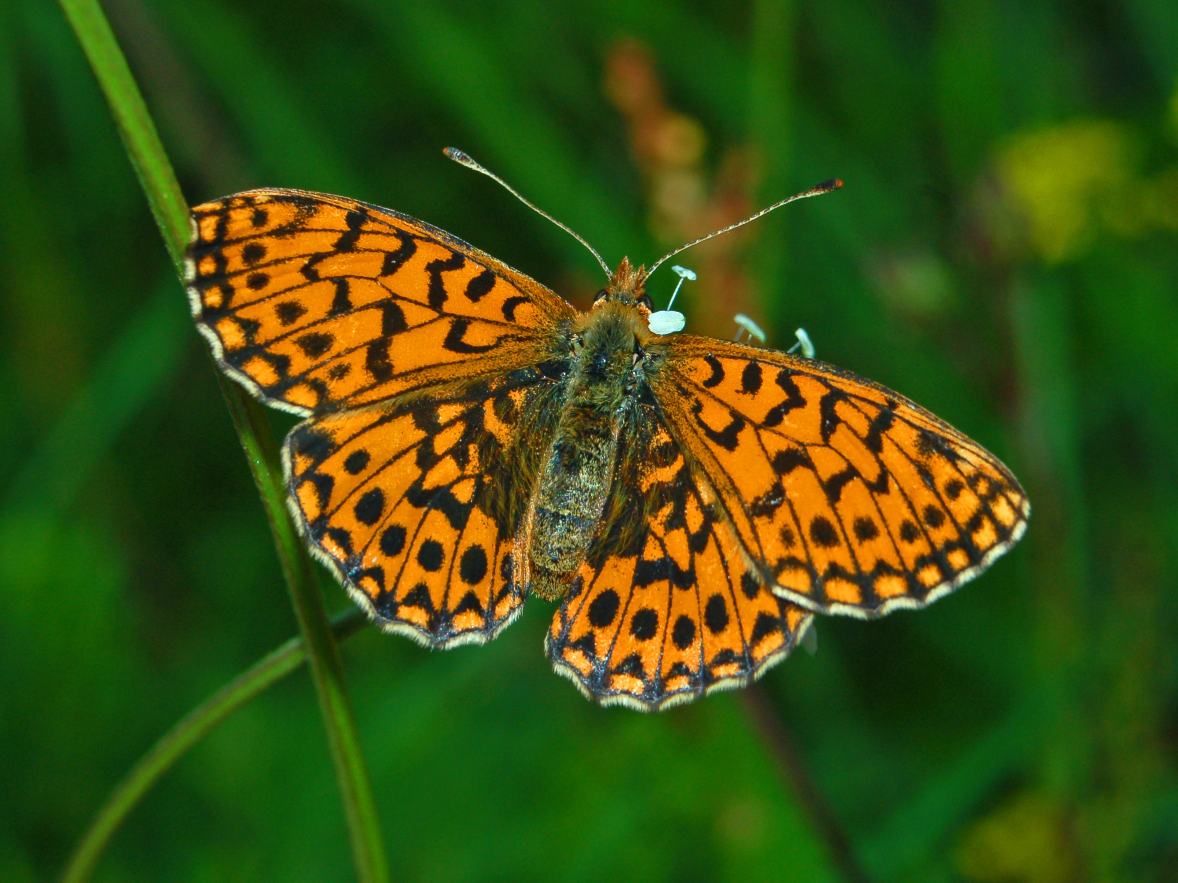 "Boloria dia". Piani di Praglia, Genova, Italy